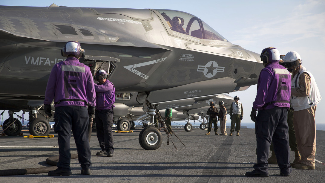 Original Caption: Marines and sailors aboard the Uss Wasp (LHD-1) secure and refuel an F-35B Lightning II Joint Strike Fighter after its arrival for the first session of operational testing, May 18, 2015. Data and information gathered from OT-1 will lay the groundwork for F-35B deployments aboard Navy amphibious ships and the announcement of the Marine Corps' initial operating capacity of the F-35B in July. The aircraft are stationed with Marine Fighter Attack Training Squadron 501, Marine Aircraft Group 31, 2nd Marine Aircraft Wing, Beaufort, South Carolina and Marine Fighter Attack Squadron 121, Marine Aircraft Group 13, 3rd Marine Aircraft Wing, Yuma, Arizona. (U.S. Marine Corps photo by Lance Cpl. Remington Hall/Released)